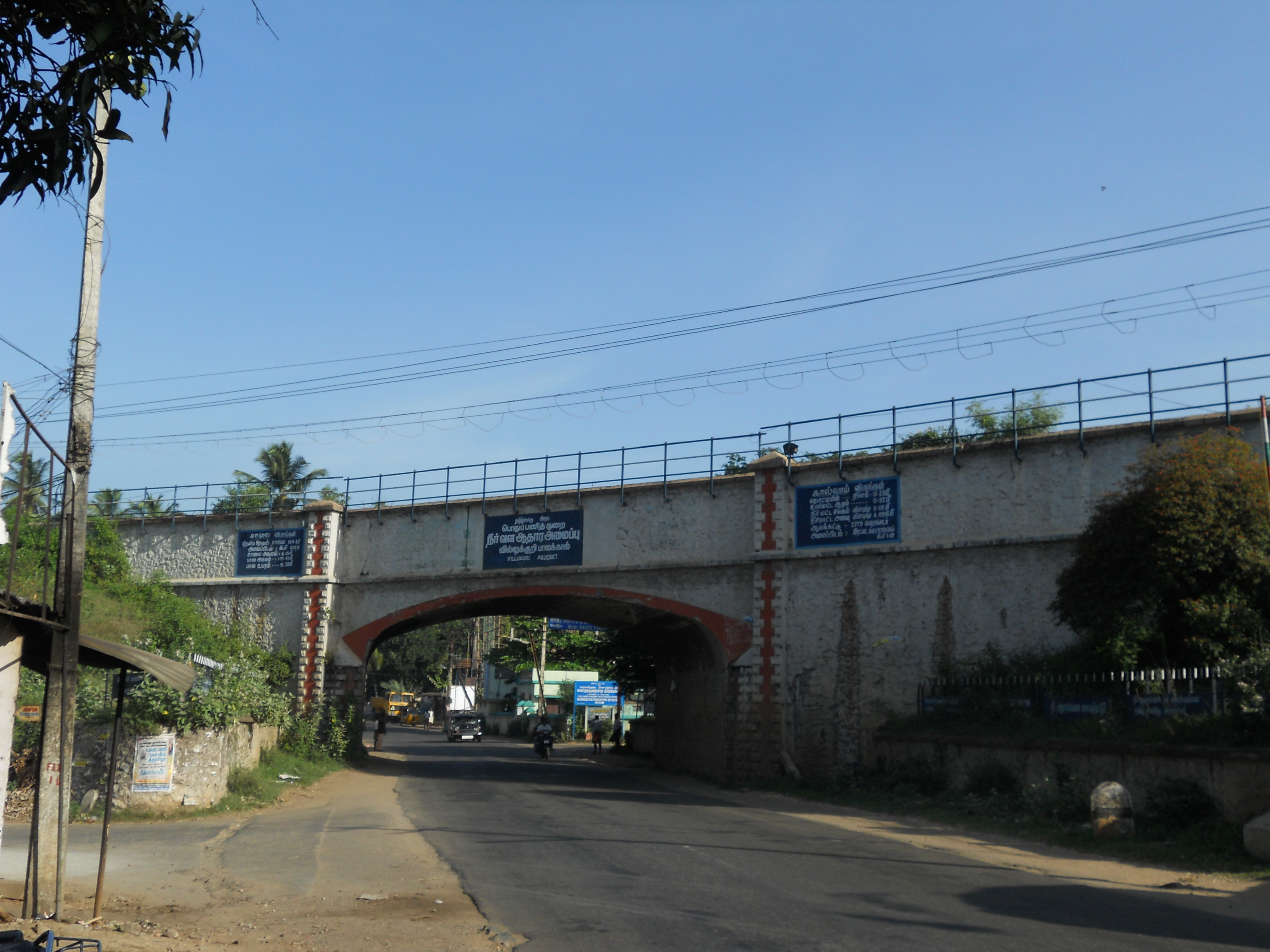 villukury water duct